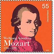 German stamp on the occasion of the 250th birthday of Wolfgang Amadeus Mozart